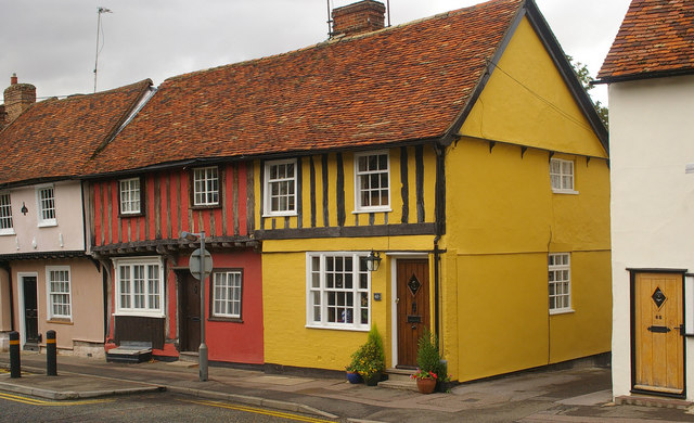 Cottages, Castle Street, Saffron Walden